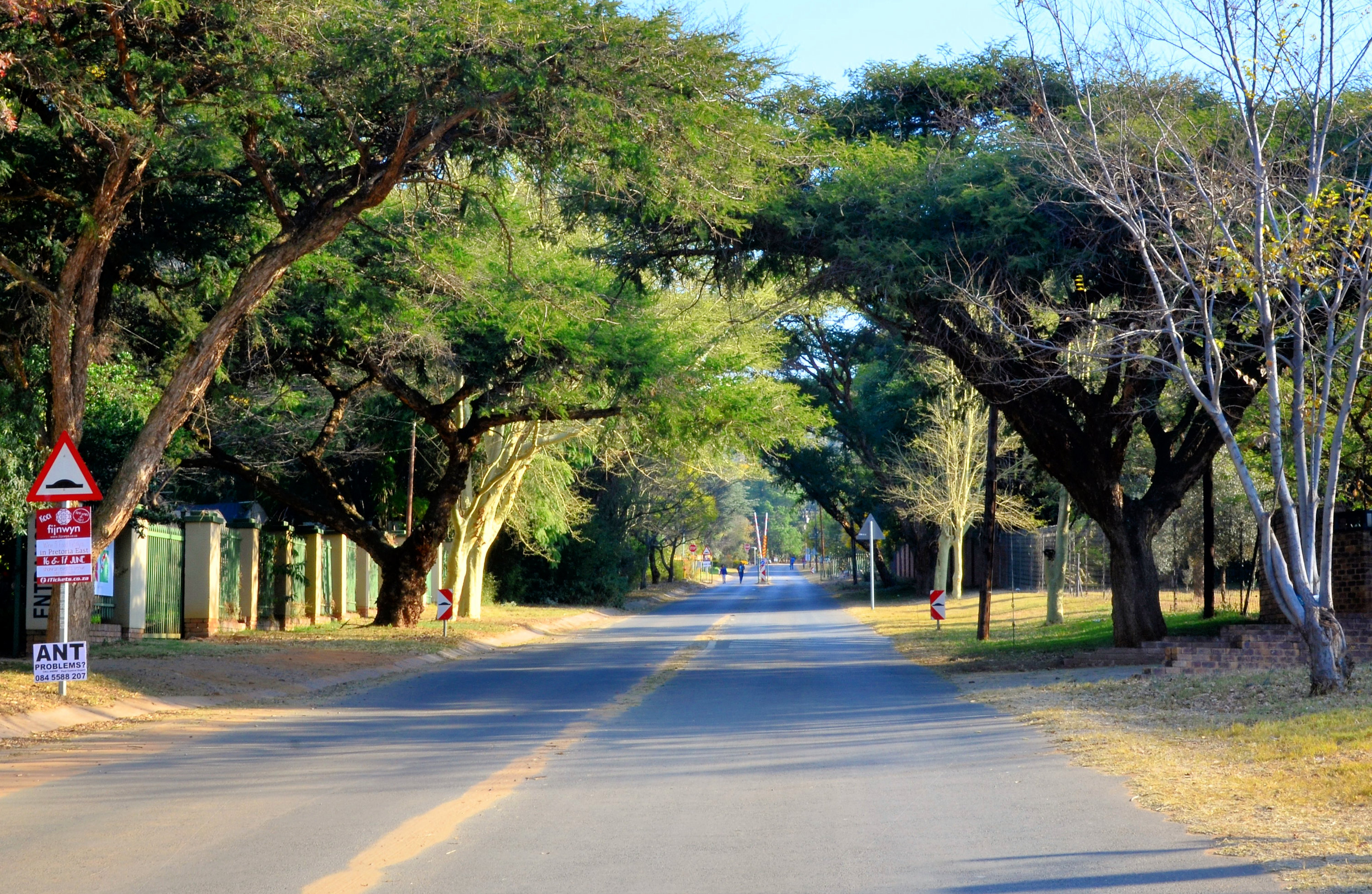 The Cole road entrance to Shere, a suburb of Pretoria, South Africa